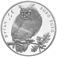 Coin of Ukraine